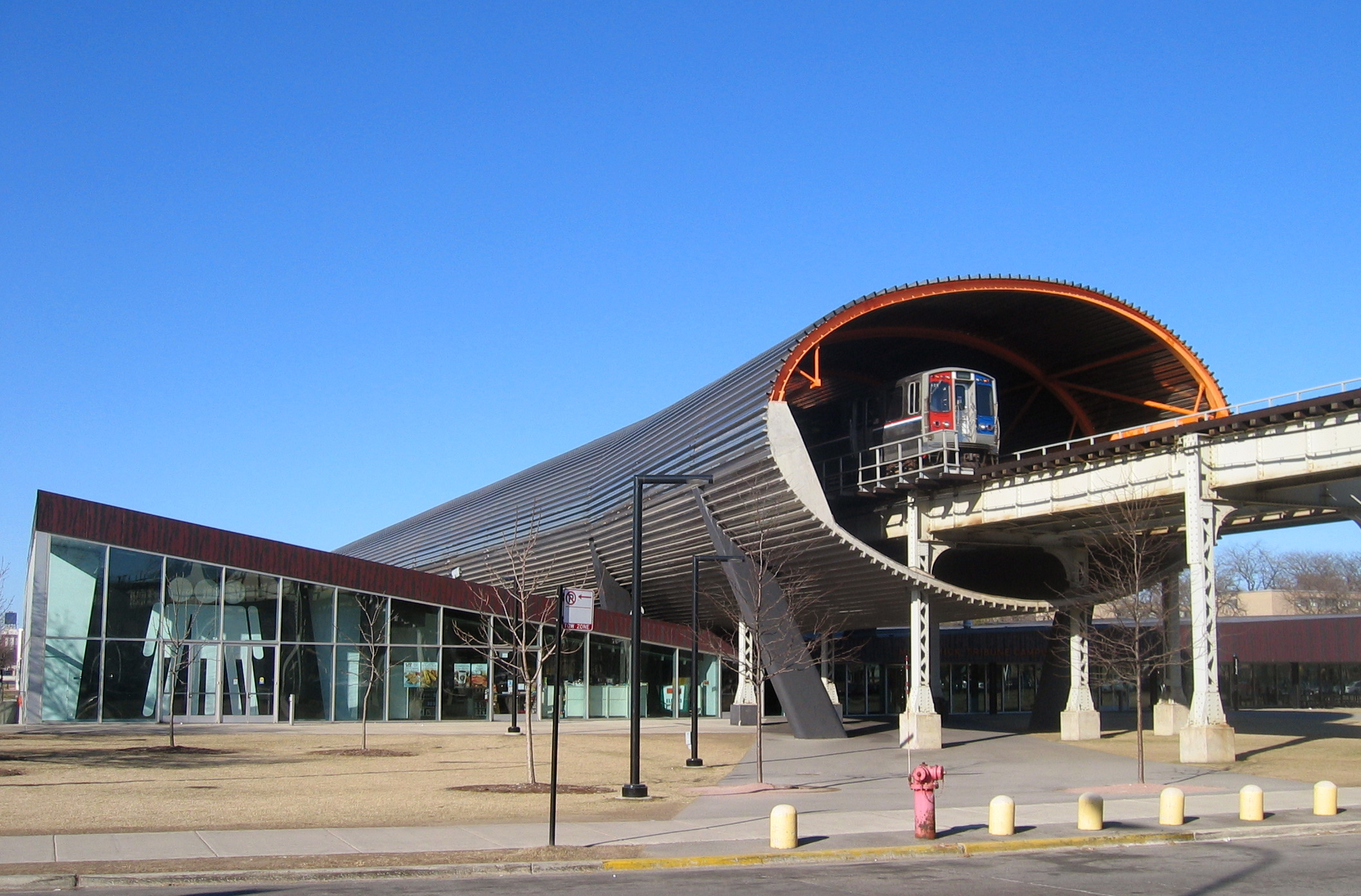 The McCormick Tribune Campus Center at the Illinois Institute of Technology, Chicago, IL. Designed by Rem Koolhaas; opened September 2003.